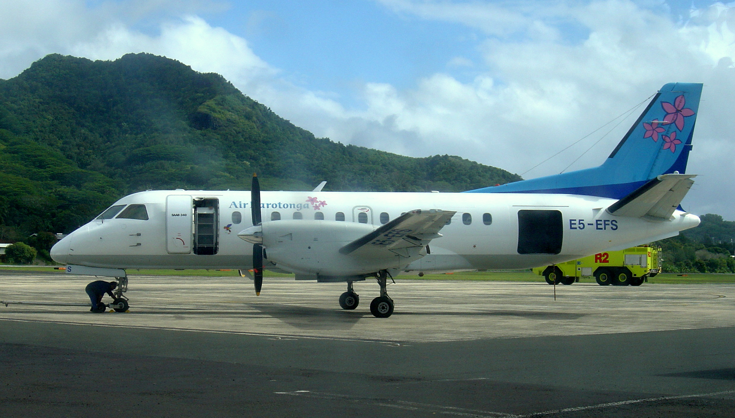 Air Rarotonga Saab 340A (E5-EFS) on the ground at Rarotonga International Airport